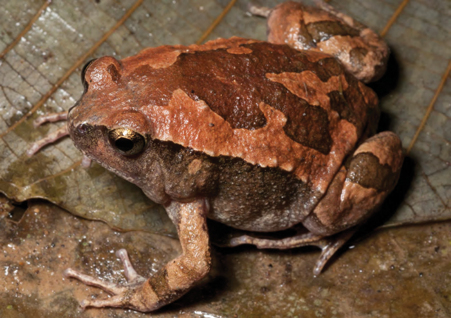 Kaloula picta (KU 330616) from the forest edge just above Barangay Magrafil. Photo: RMB.